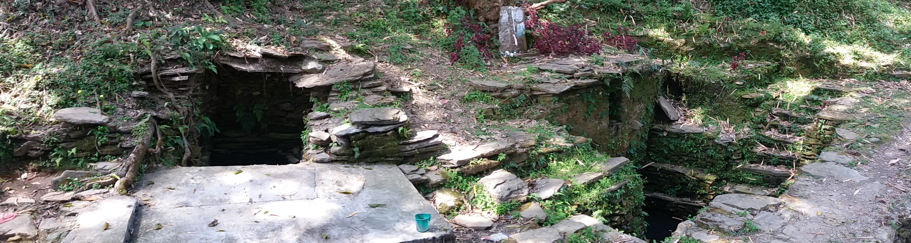 Padhera